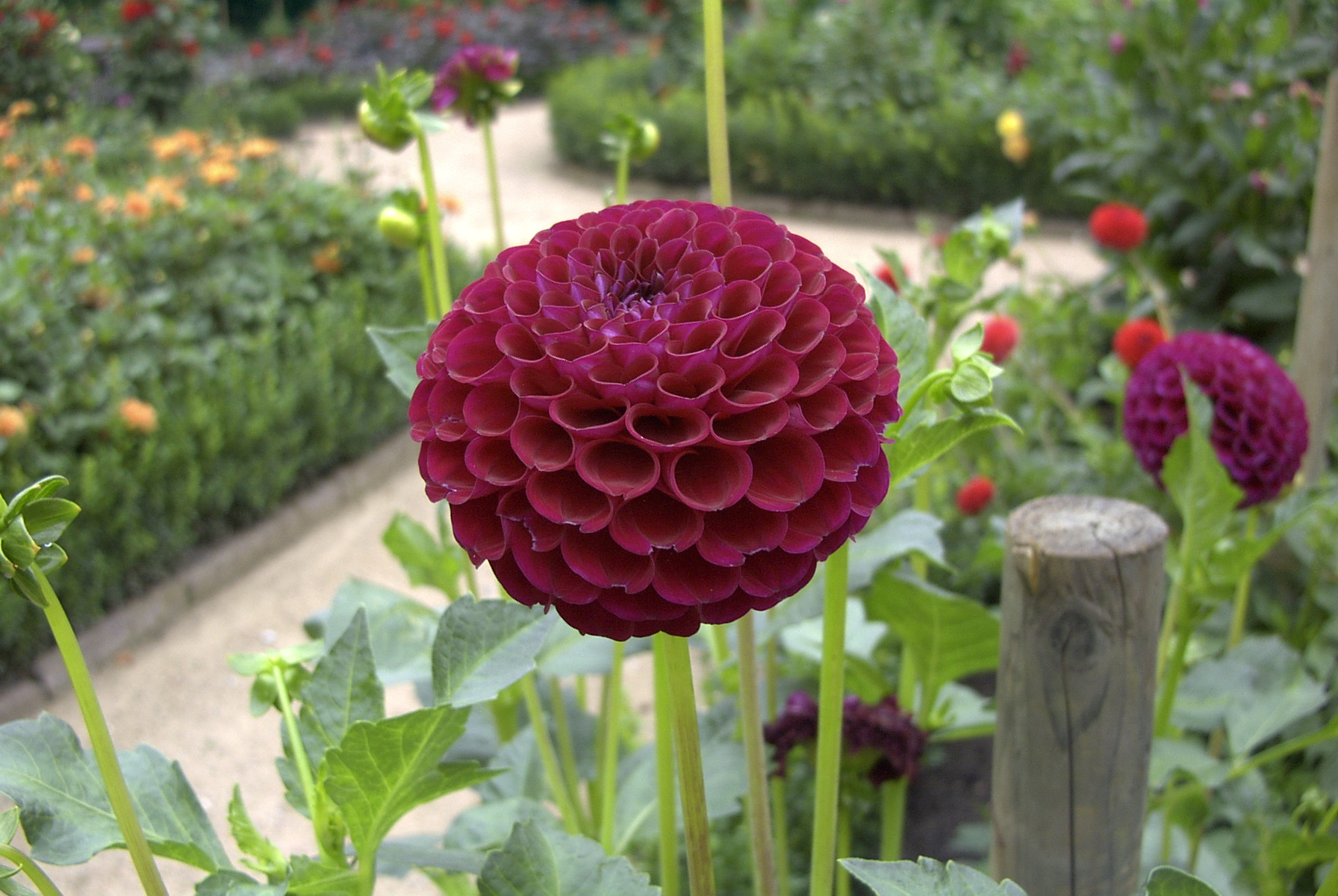 Dahlia